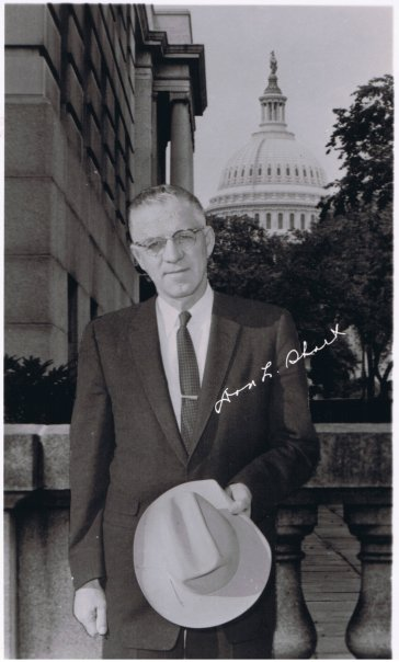 U.S. Representative Don Levingston Short. Taken upon arrival in Washington D.C. Congressman Short used the photograph for campaign purposes.